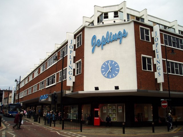 Joplings Department Store, John Street, Sunderland, 18th March 2005. This is a former World War Two bomb site.